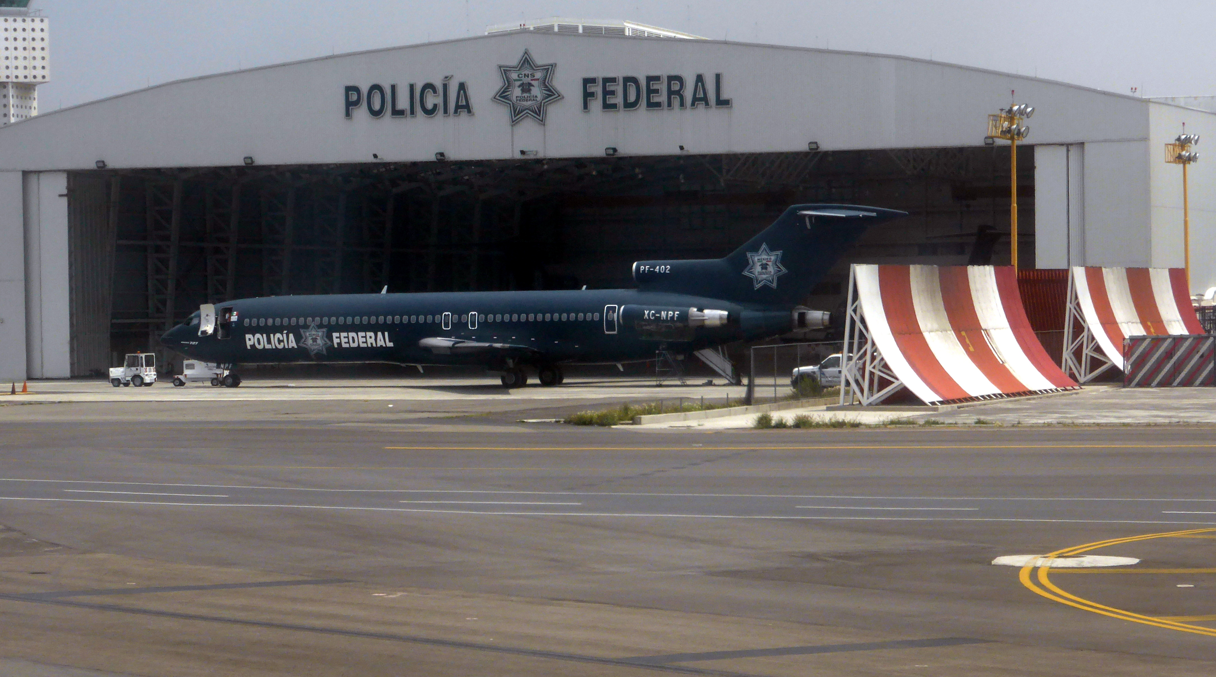 Wikimania 2015, Mexico City